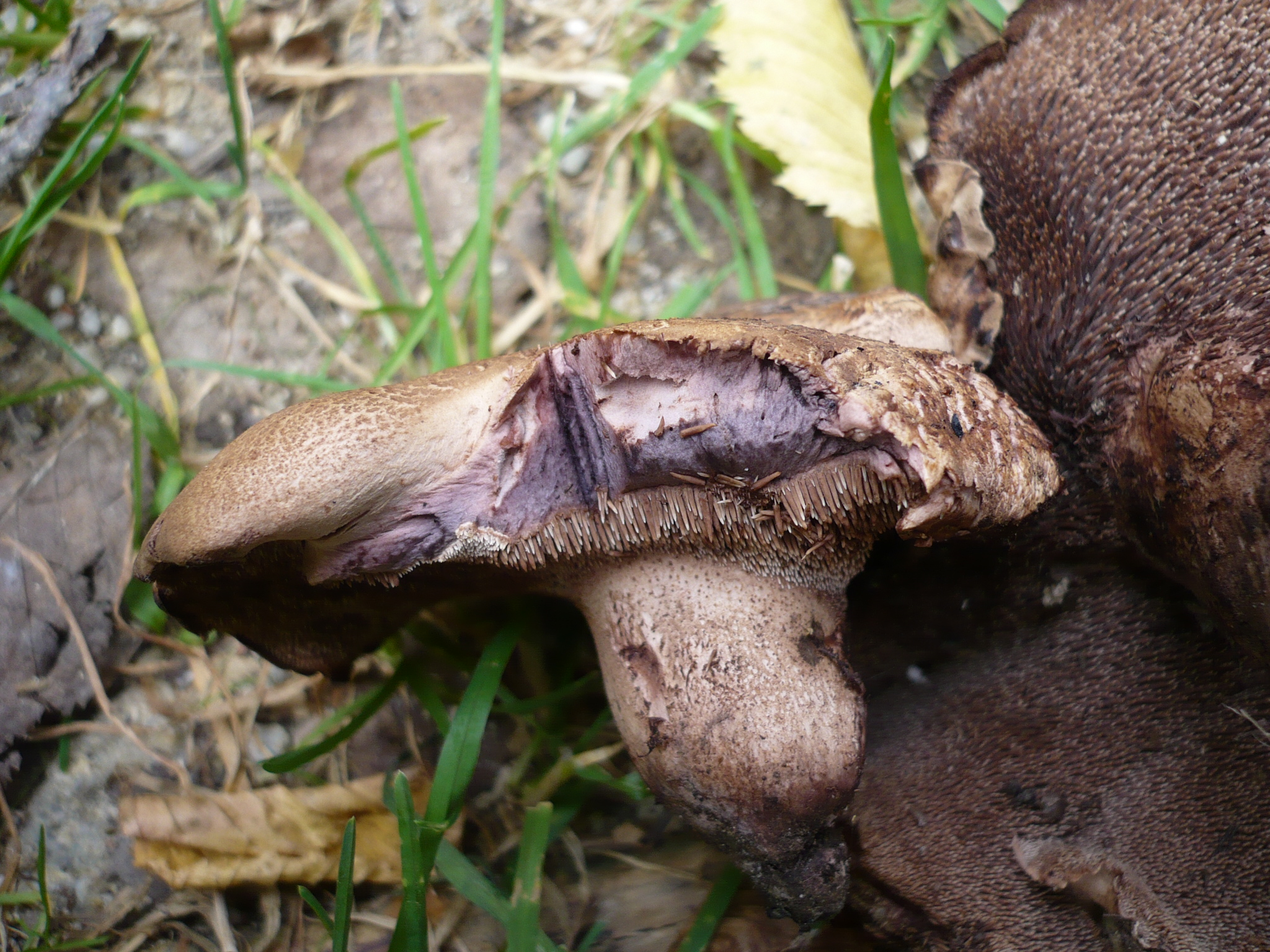 Fruitbody of the hydnoid fungus Sarcodon joeides (Pass.) Pat.; photographed in Jüdingsau, Marz, Bezirk Mattersburg, Burgenland, Austria.